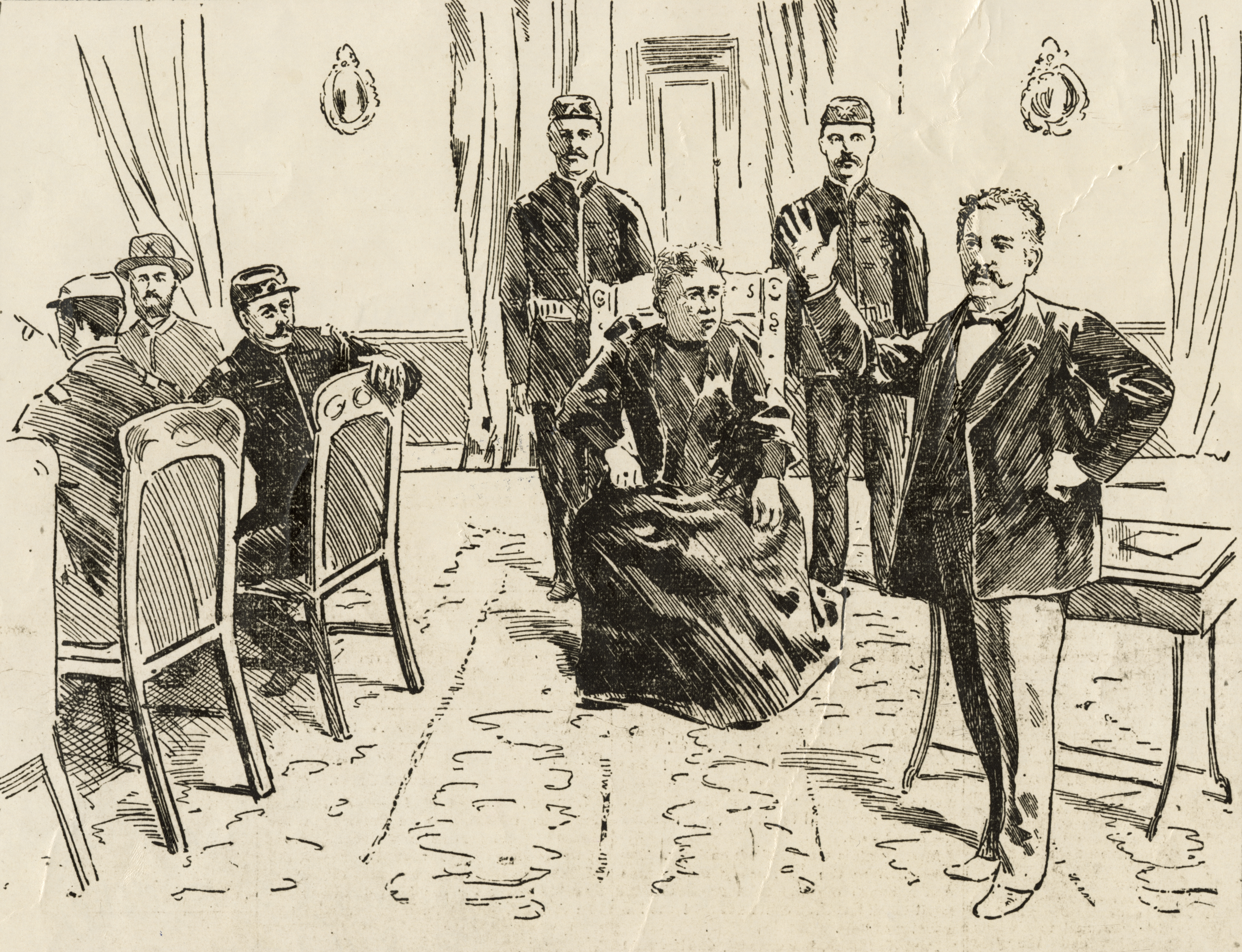 Paul Neumann Making His Address On The Behalf Of The Ex-Queen At Her Trial In The Palace – Newspaper illustration of Liliuokalani's public trial by a military tribunal in 1895 in the former throne room of the Iolani Palace.